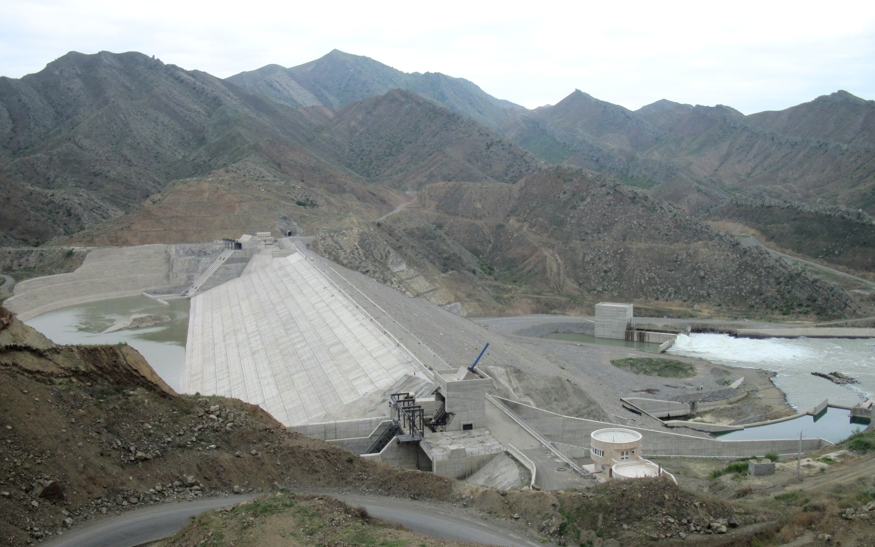 For Khomarluo wiki page.